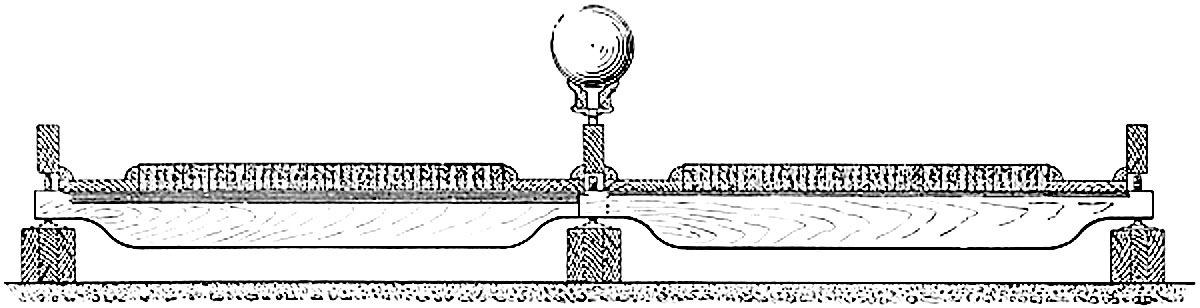 1895 Bowling lane in cross section, showing screw-adjustable mechanisms on sides and in middle, to facilitate straightening and leveling of the bowling alley surface.